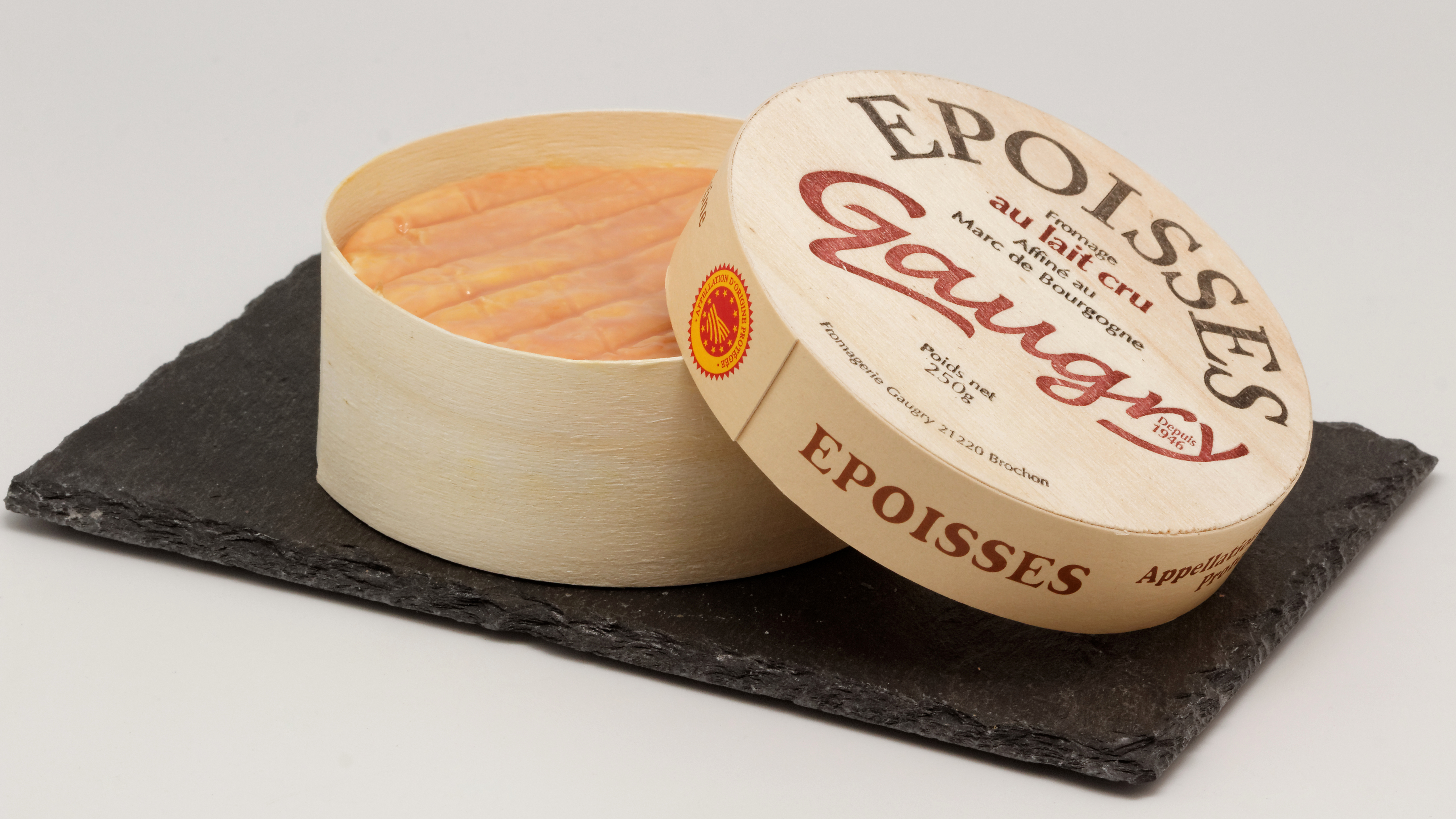 Époisses Gaugry (cow's milk cheese)